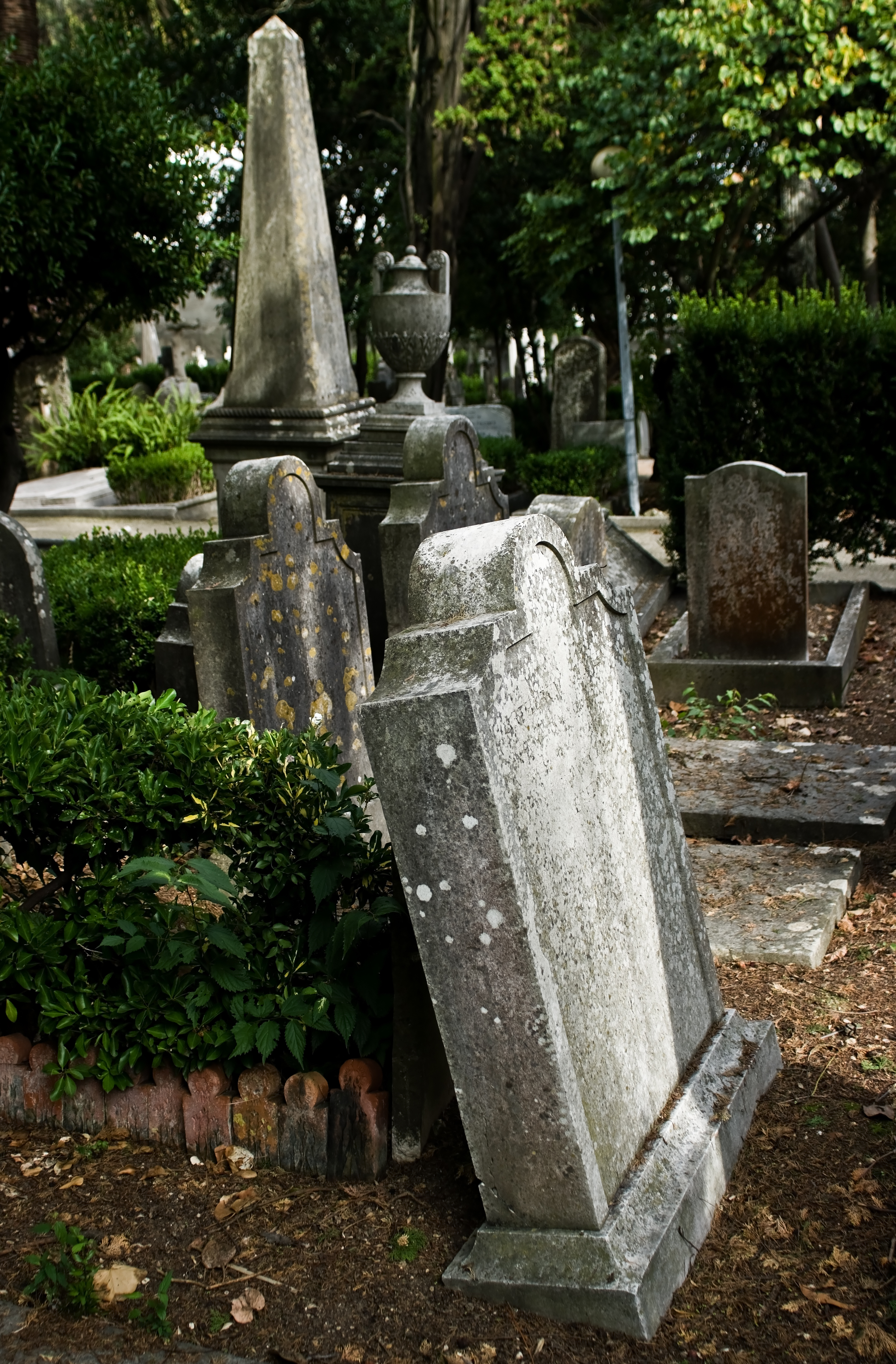 British Cemetery in Lisbon, Portugal.